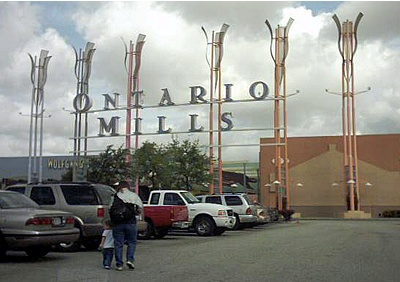 The main Ontario Mills sign (visible from freeway), a Mills Corporation shopping mall in Ontario, California.